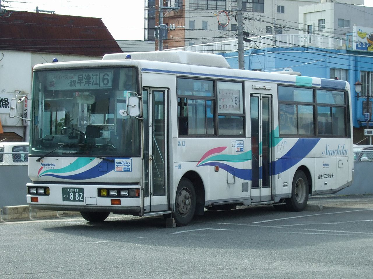 Nissan Diesel Space Runner JM U-JM210GSN (body by Nishi-Nippon Shatai Kogyo) for Nishitetsu Bus Kurume Okawa Depot transit bus (license plate: Kurume 22 KA 882) in Yanagawa City, Fukuoka Prefecture, Japan